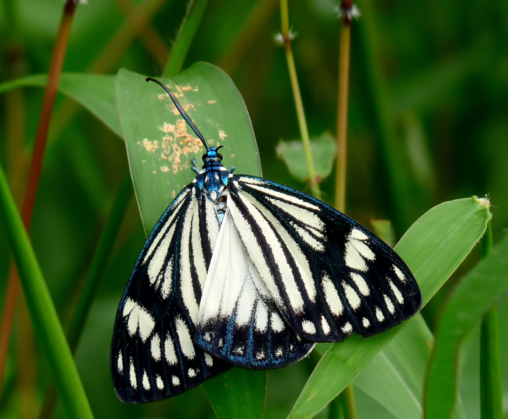 Cyclosia papilionaris feeding on a bird-dropping Drury's Jewel (Cyclosia papilionaris) is a day-flying species. Male and female look very different and this is a female. They distributed across the Indo-Australian region from Pakistan to the Philippines, and south via the Malay peninsula to Sumatra, Borneo, Sulawesi, Java and New Guinea. This species is found in rainforest and humid deciduous forest at altitudes between sea level and about 1000m. They belong to the Chalcosiinae subfamily of the Zygaenidae family.